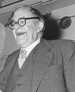 Karl Barth in 1956